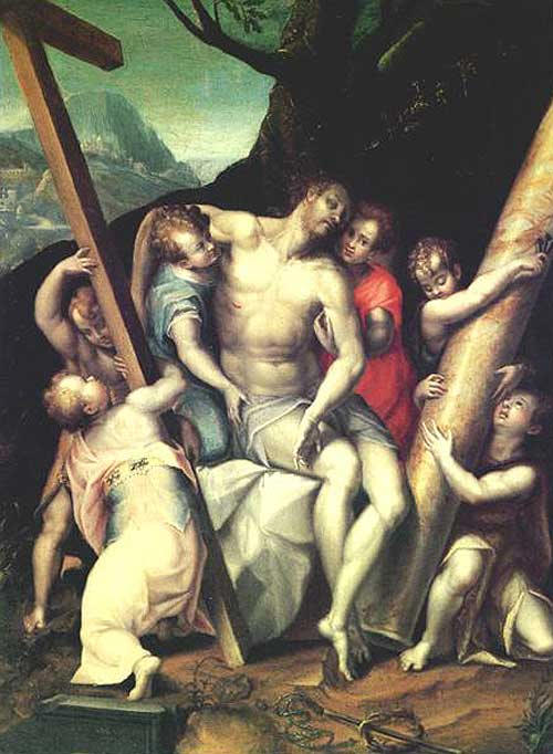 Symbols of Christ's suffering: the Cross, the column of the flagellation, the angel at the right has three nails, the wounds in Christ's body, the whip, and the Crown of Thorns. Christ is out of proportion to the other figures